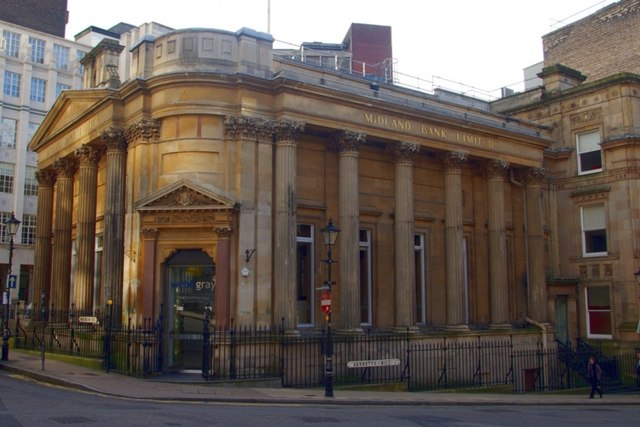 Former Midland Bank The headquarters of the Birmingham Banking Company was designed by Rickman and Hutchinson in 1830. The entrance was originally in Bennett's Hill, but in 1868 H.R. Yeoville Thomason added the present entrance on the corner of Waterloo Street. The premises are now the offices of the architects.Webb, Gray and Partners